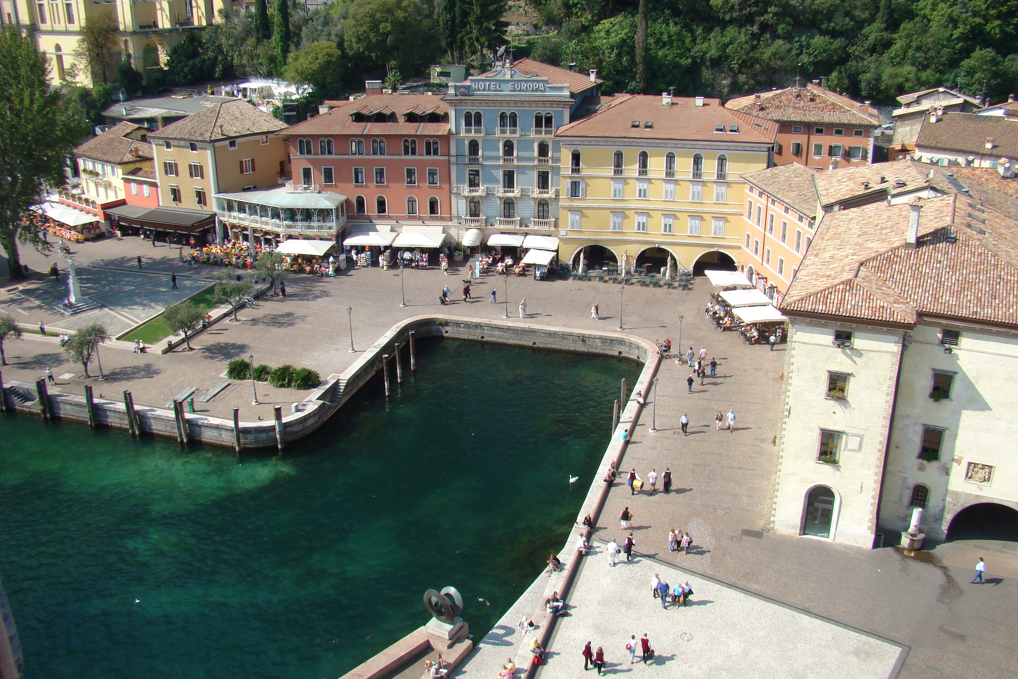 Riva del Garda from Torre Apponale